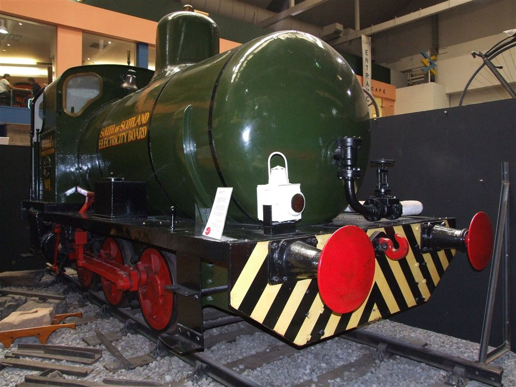 The large cylindrical object is not a boiler but a "steam drum" which was a third full of boiling water. It was filled with steam from a stationary plant then the loco would use the steam as it moved around. As the pressure dropped in the drum the water would boil more fiercely (As the temperature at which water boils drops with lower pressure). These locos were extremely successful and were largely used in gasworks oil refineries and other places where naked flames could not be tolerated.